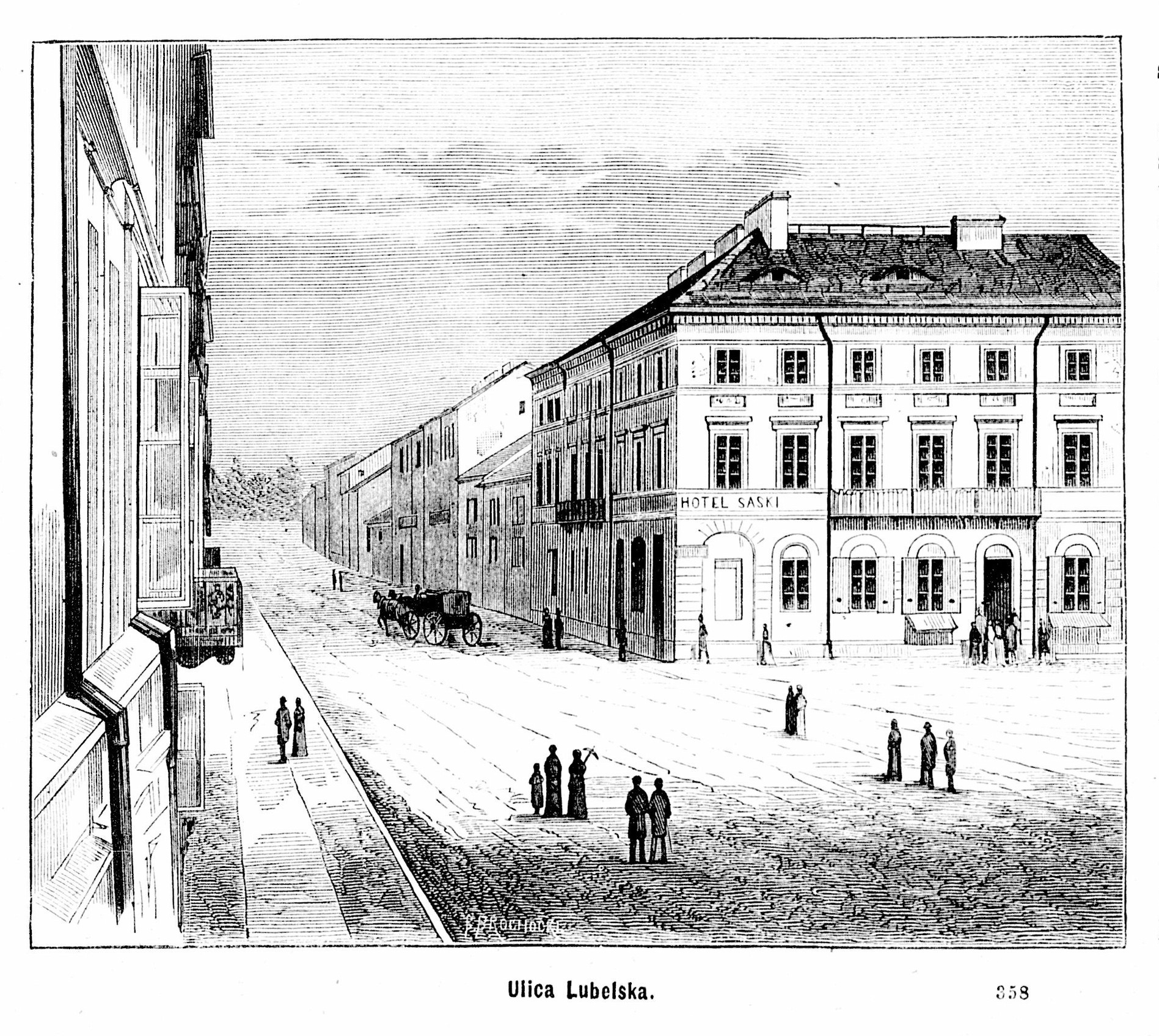 Former Lubelska Street (today Żeromskiego Street) in Radom in Poland (1880)